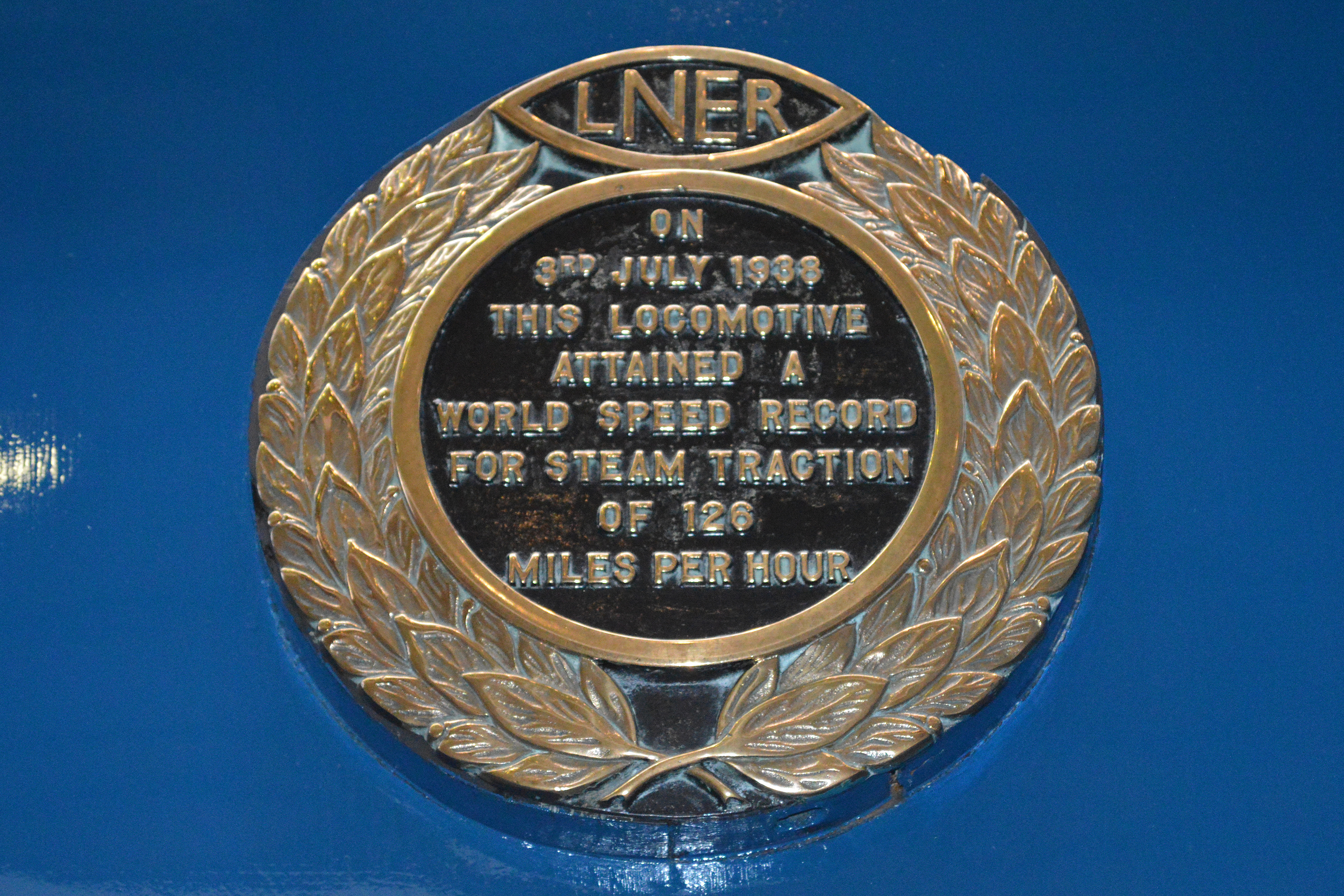 This is the left side plaque commemorating Mallard's world speed record. It reads:- 'On 3rd July 1938 this locomotive attained a world speed record for steam traction of 126 miles per hour'. Mallard is permanently on display at the National Railway Museum, York. 22-02-2013